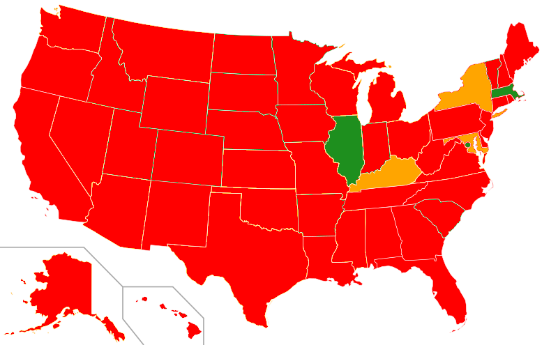 gun license requirement by US state